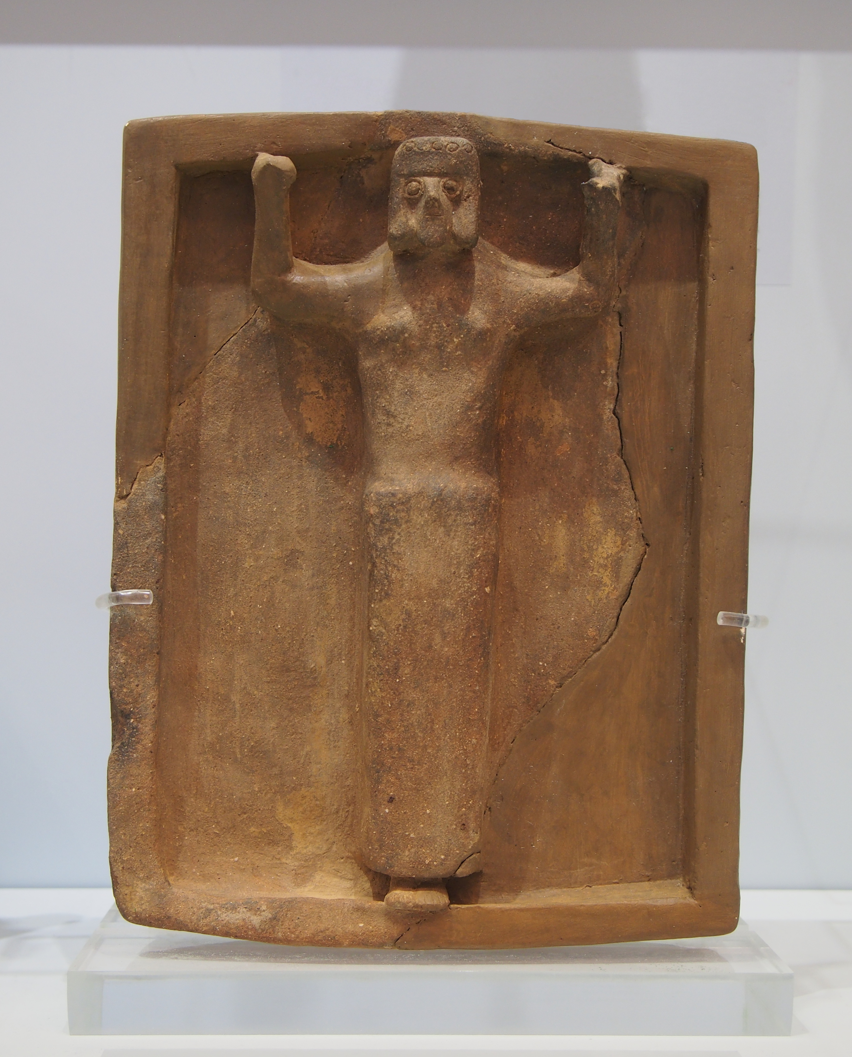 Terracota placque with female figure with upraised hands. 7th century BC. From Mathia Pediada now is exhibited at the Archaeological Museum of Heraklion.